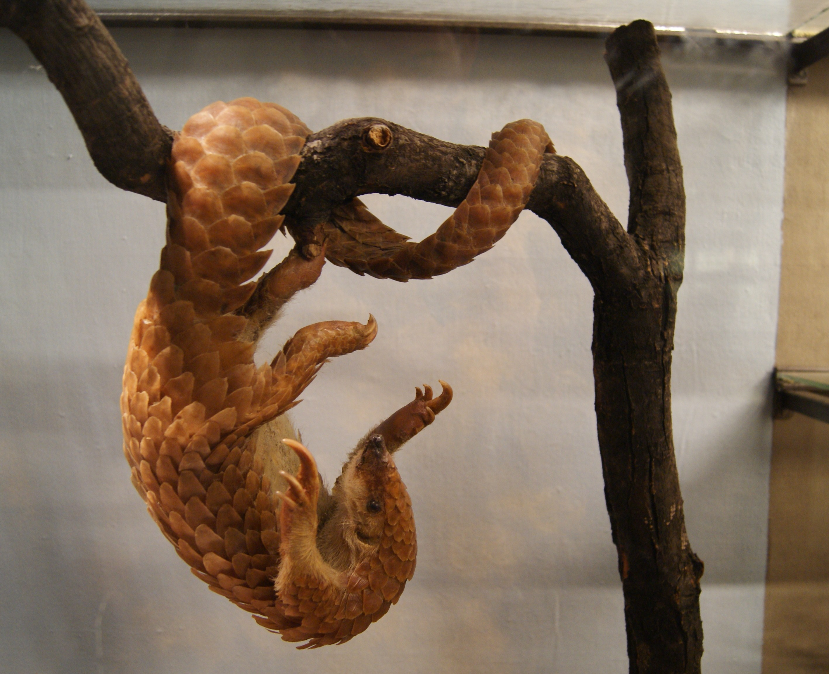 Tree Pangolin (Manis tricuspis) captured in what was Belgian Congo. On display in Göteborgs Naturhistoriska museum (Gothenburg Museum of Natural History).